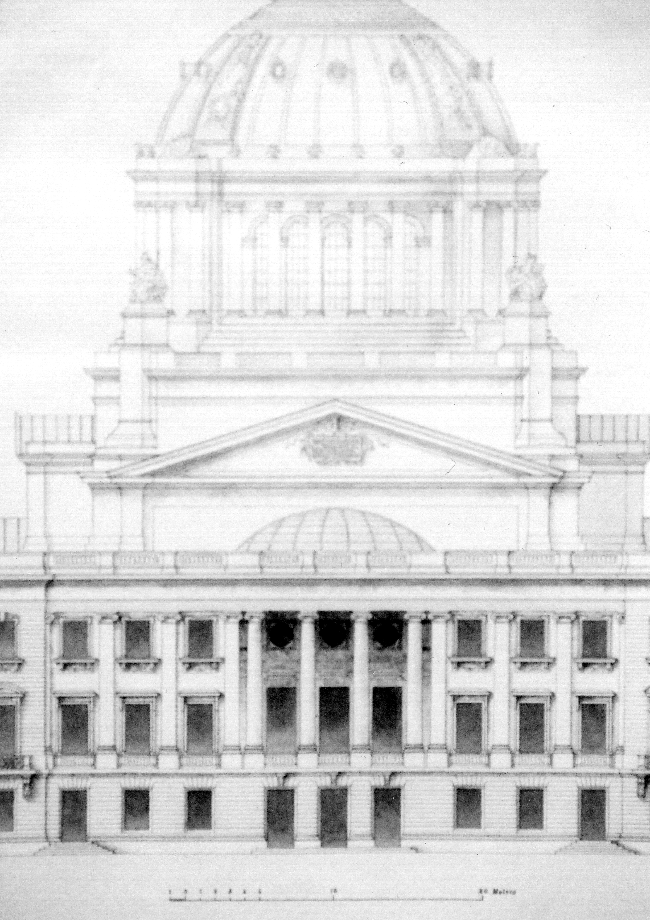 Palacio Legislativo Federal. México. Project. Henri Jean Émile Bénard